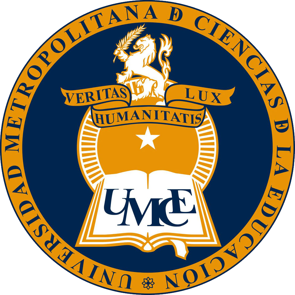 Umce logo